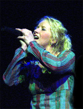 Susan Aho performing with Värttinä in Berlin on April 22nd 2006.